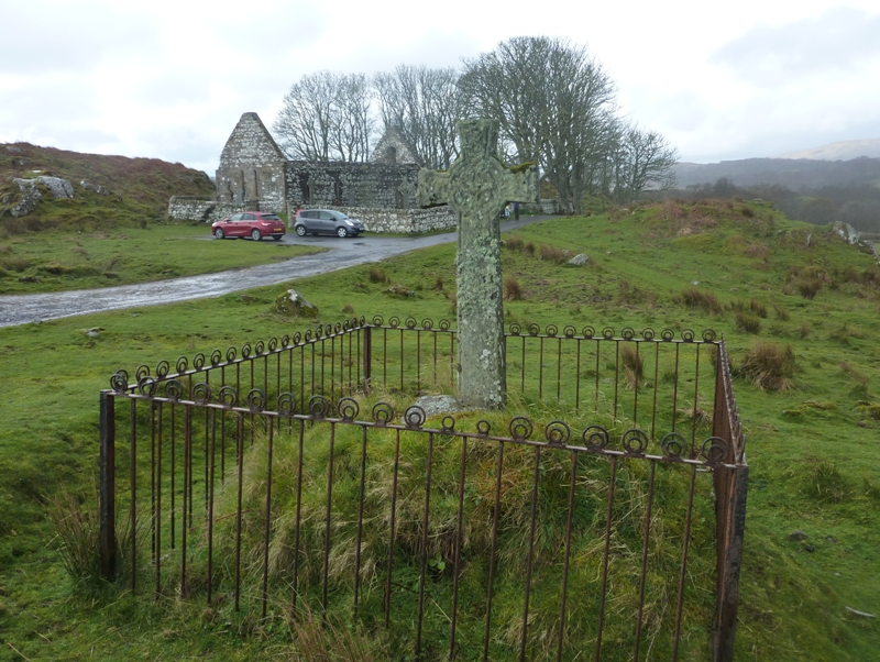 Kildalton Church, Kildalton, Islay, Argyll and Bute, Scotland. Thief's Cross (east side)